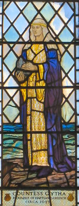 Part of Caroline Townshend and Joan Howson window at St Nectan's Church. Countess Gytha